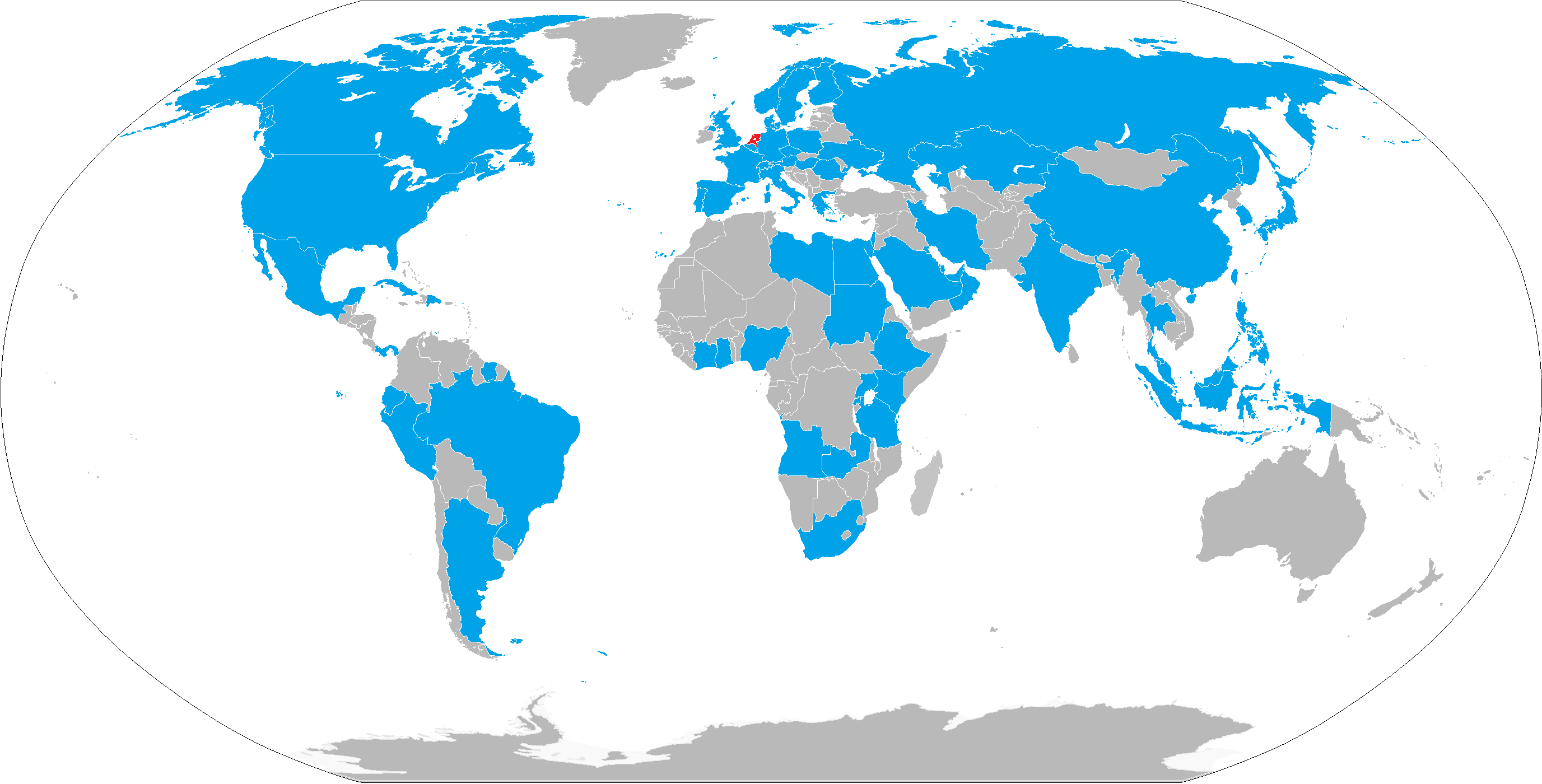 Destinations from Amsterdam to the world.